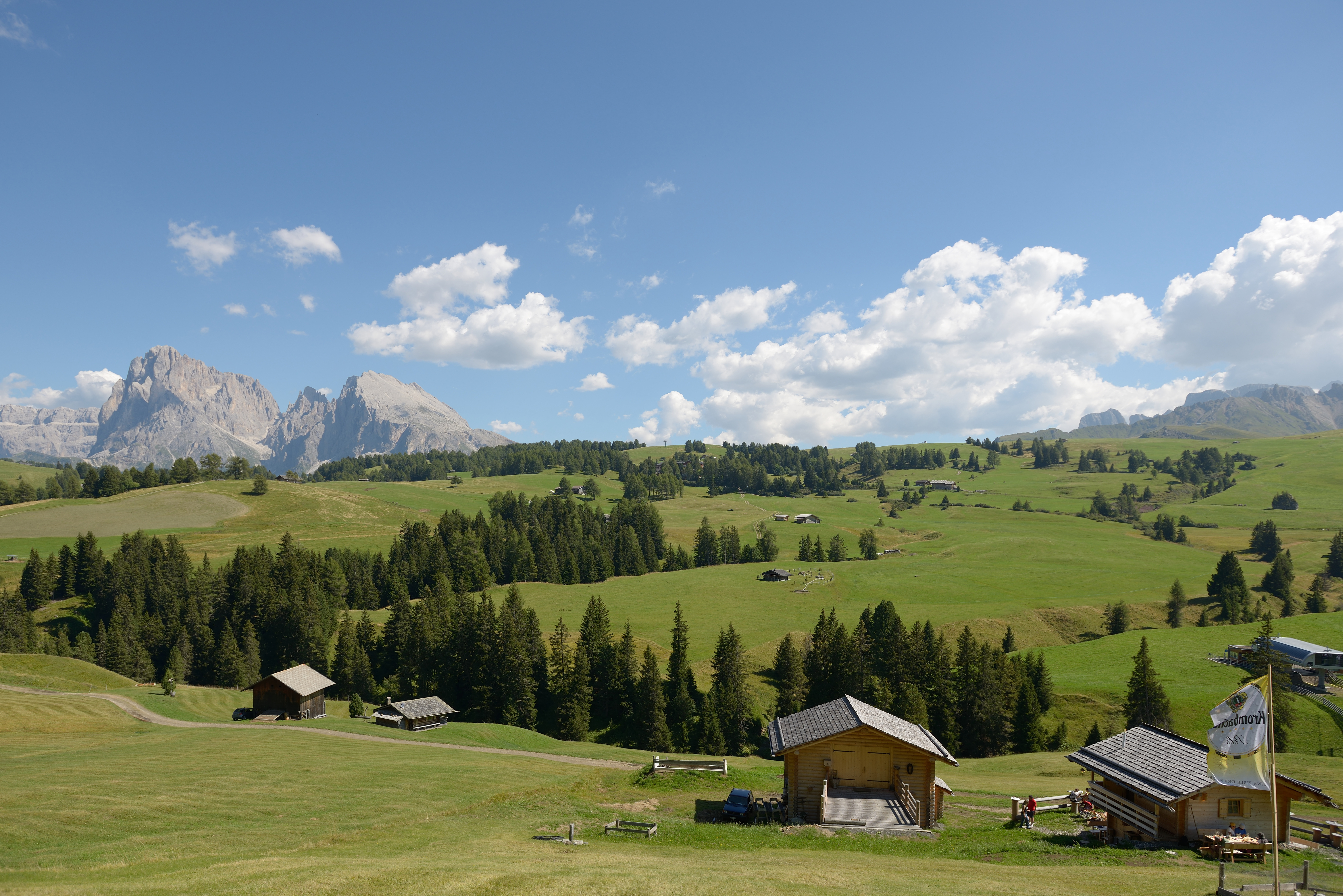 The Seiser Alm meadows in the back the mountain Saslonch in Gröden